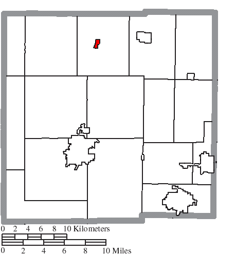 Map of the municipal and township boundaries of Crawford County, Ohio, United States, as of the 2000 census, with the location of the village of Chatfield highlighted. Township borders are shown only in unincorporated areas in order to differentiate incorporated and unincorporated areas more clearly.